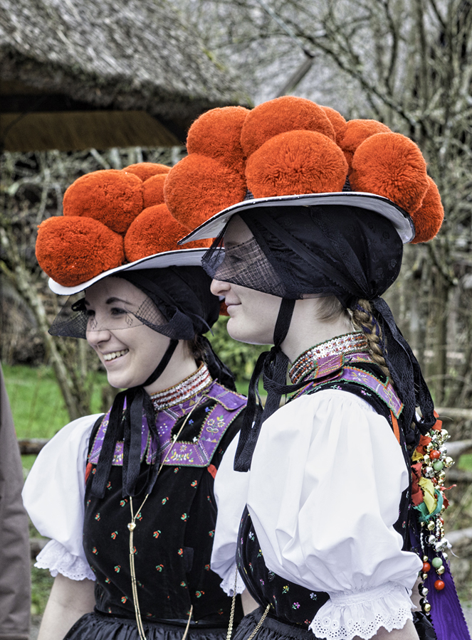 Extras wearing Black Forest tracht and Bollenhut at an outdoor museum in Gutach